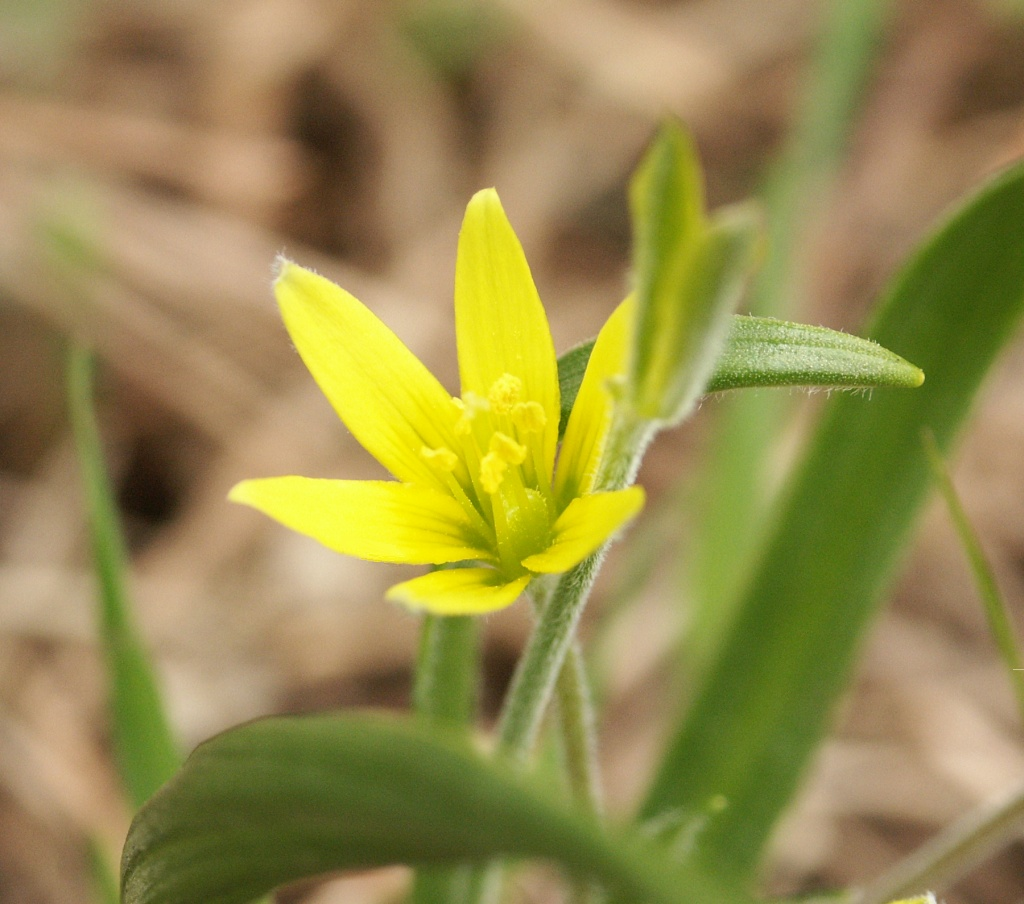 Description: Gagea villosa Date: 15. March 2003